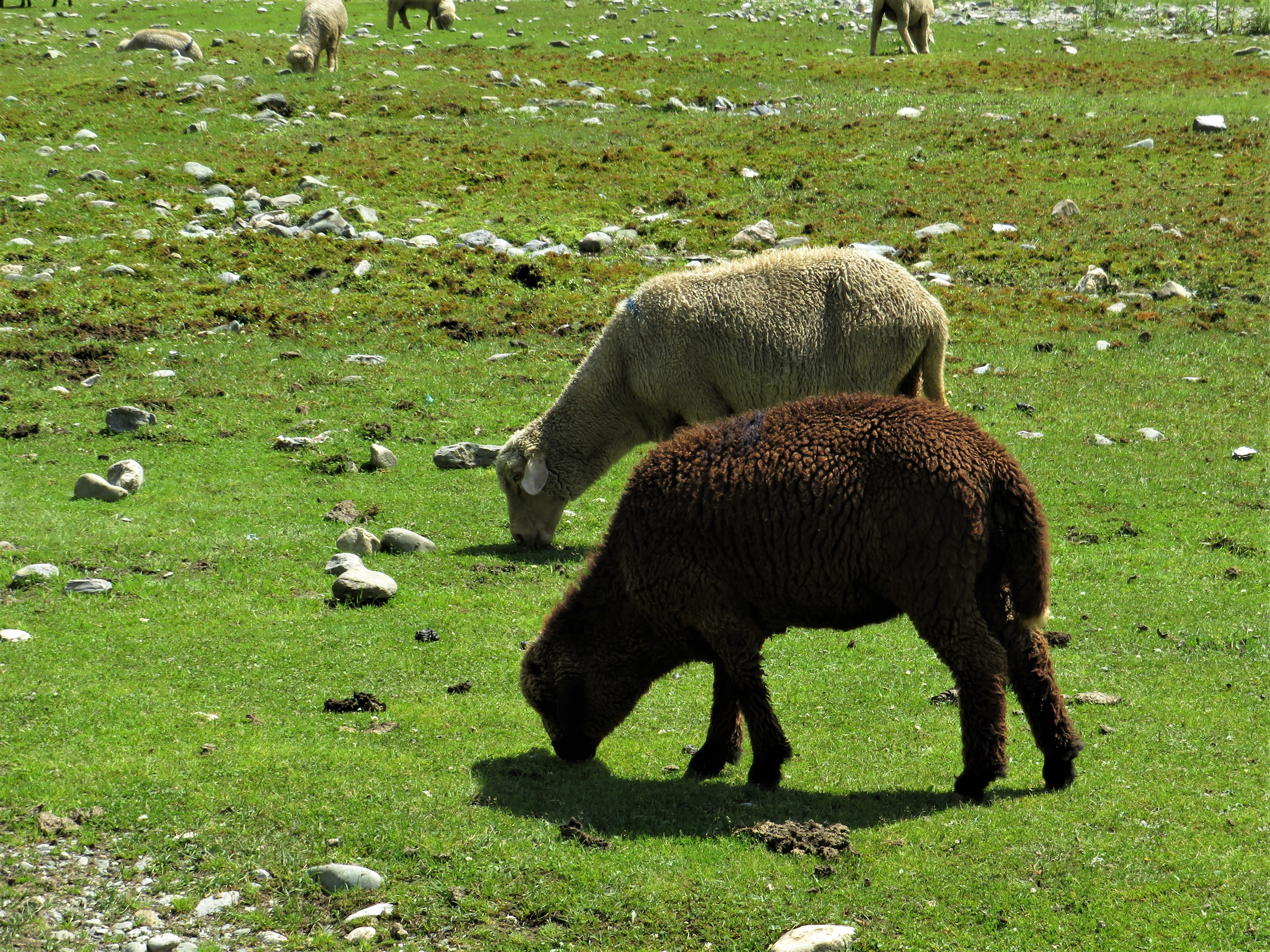 Sheep in Kashmir